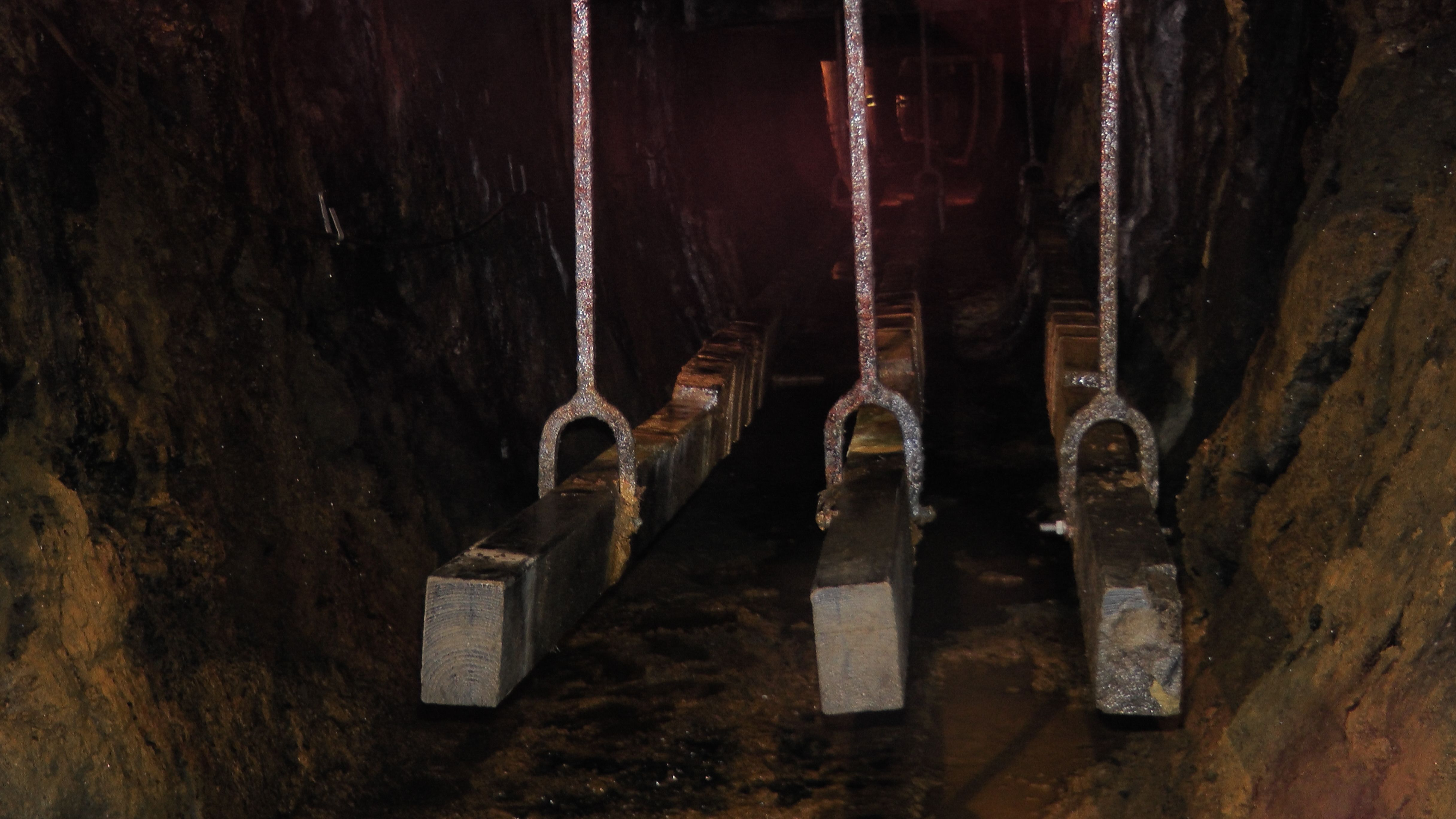 Rammelsberg visitor mine, Roeder gallery